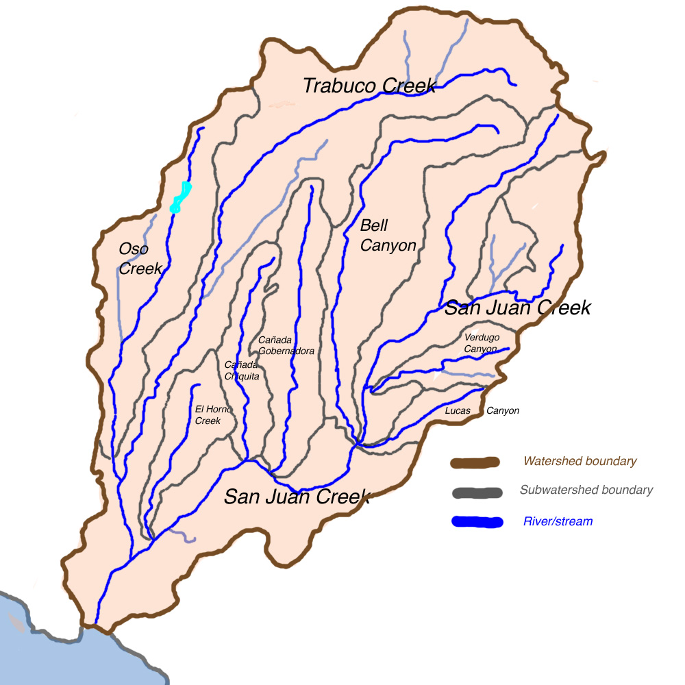 Map of San Juan Creek and tributaries, created based on Orange County Watershed map